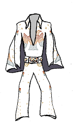 Aloha Bald Headed Eagle